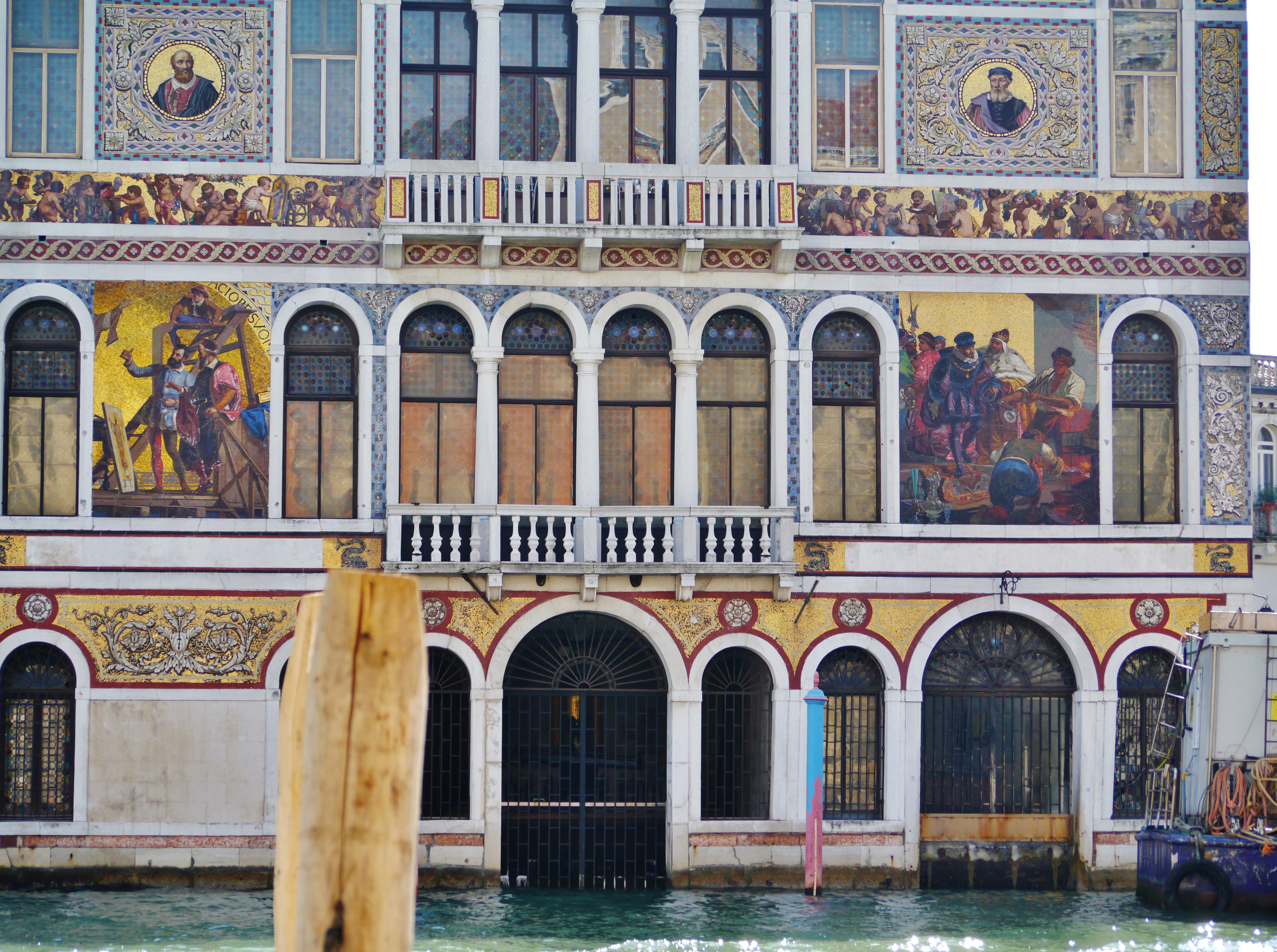 Barbarigo Palace, Venice, Metropolitan City of Venice, Region of Veneto, Italy